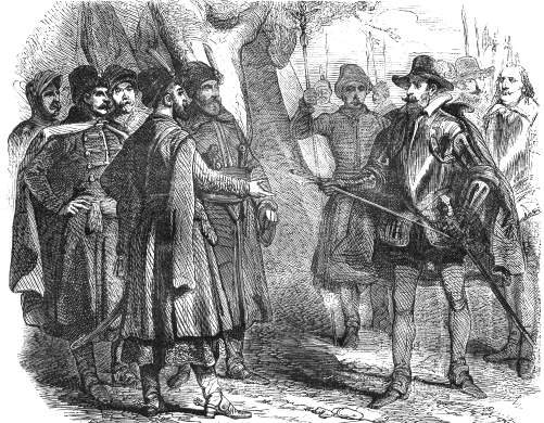 Jan Zamoyski taking Archiduke Maximilian of Austria as POW in 1588